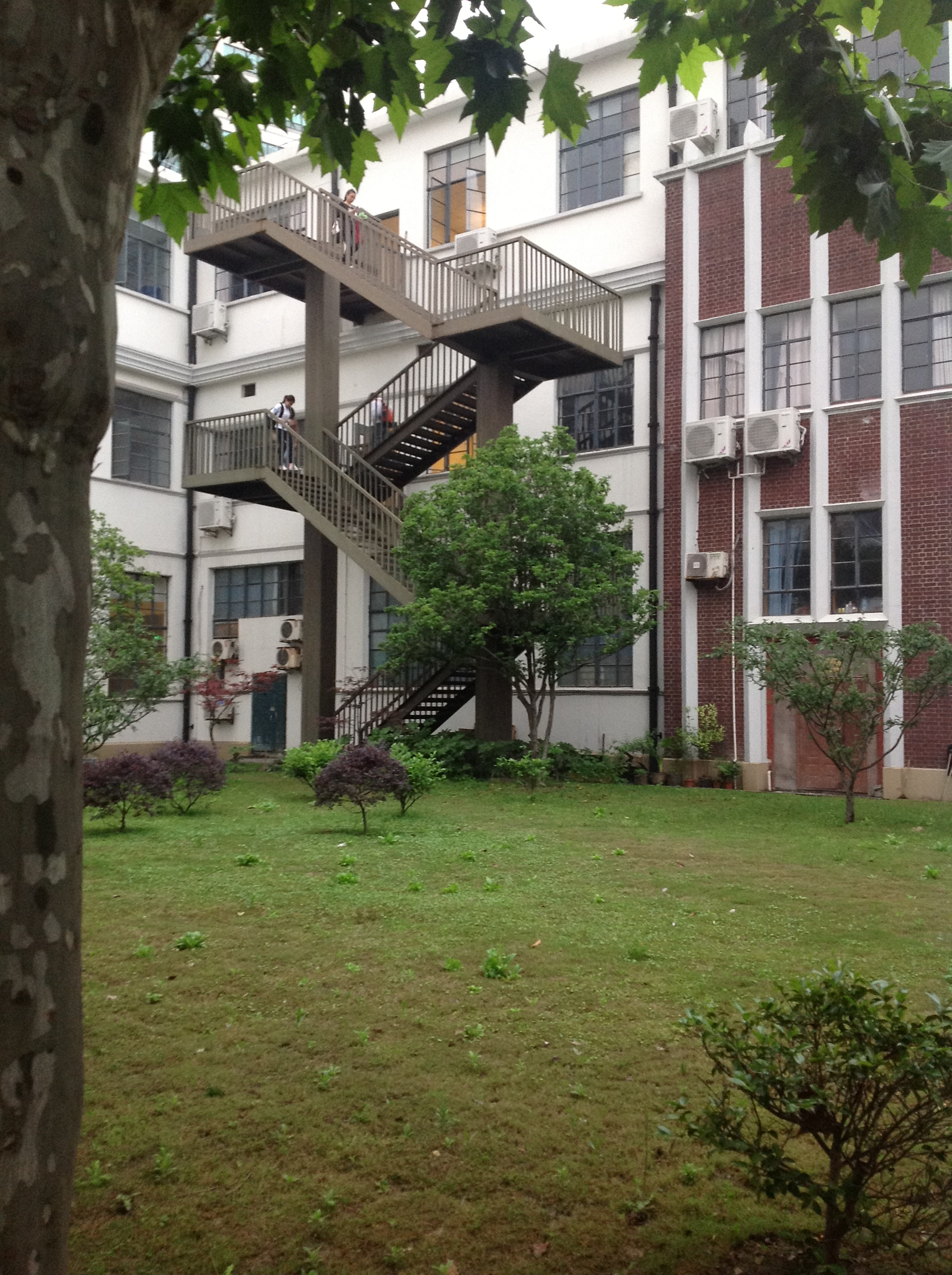 Stairs of Gongchengguan in SJTU.